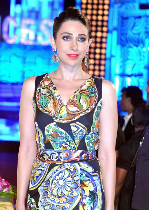 Karisma Kapoor judges '4th Indian Princess'